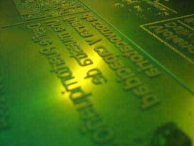 Flexography printing plate relief (closeup shot)